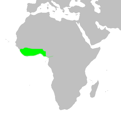 Range of Parmoptila rubrifrons